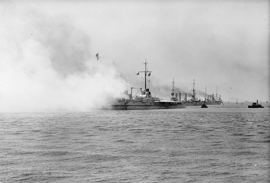 The German battlecruiser SMS Moltke (firing salute, left), and the cruisers SMS Stettin and SMS Bremen (l-r) at Hampton Roads, Virginia (USA), on 3 June 1912. Behind Bremen is a U.S. Navy battleship.